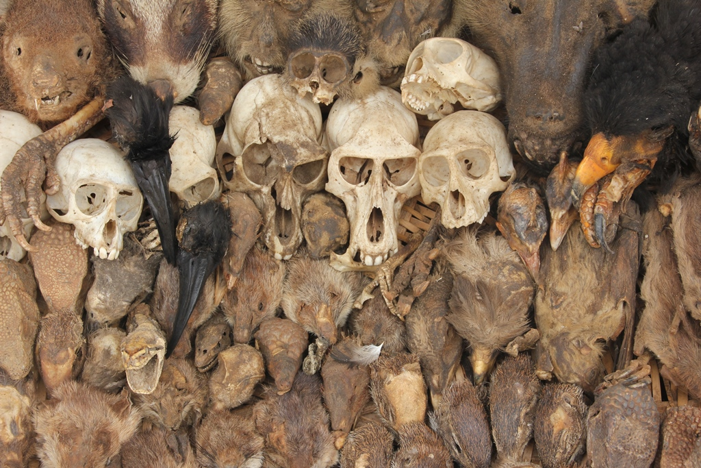 The Akodessawa Fetish Market in Lomé, Togo, West Africa is one of the biggest markets for voodoo paraphernalia.